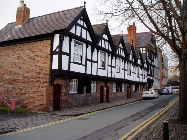 The Nine Houses. Of which there are now only six. They were built in the mid 17th century and restored in 1969. On the facade is a boundary marker for the parishes of St Michael and St Olave.